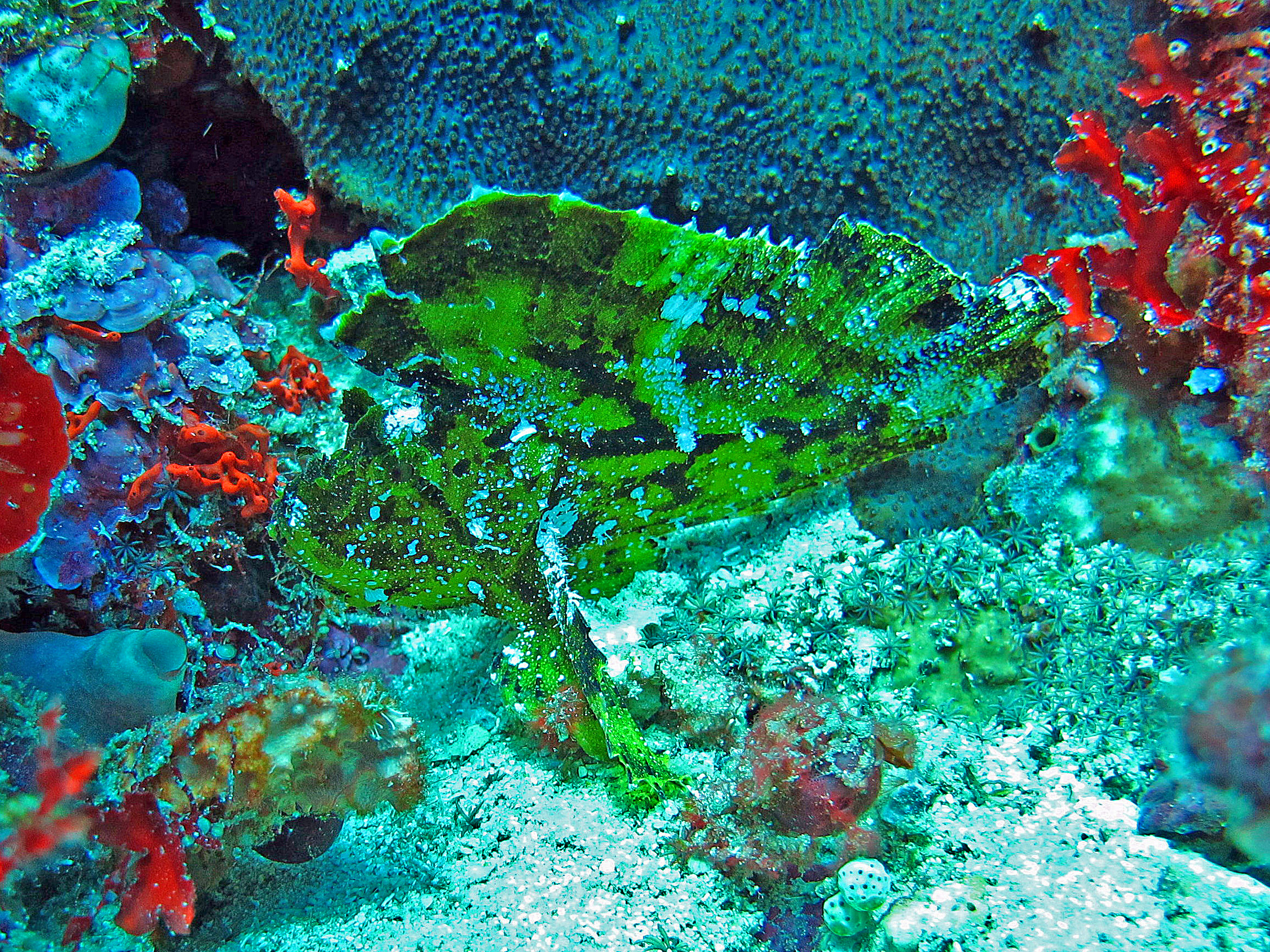 Scorpaenidae - Taenianotus triacanthus - Bunaken Island, Sulawesi